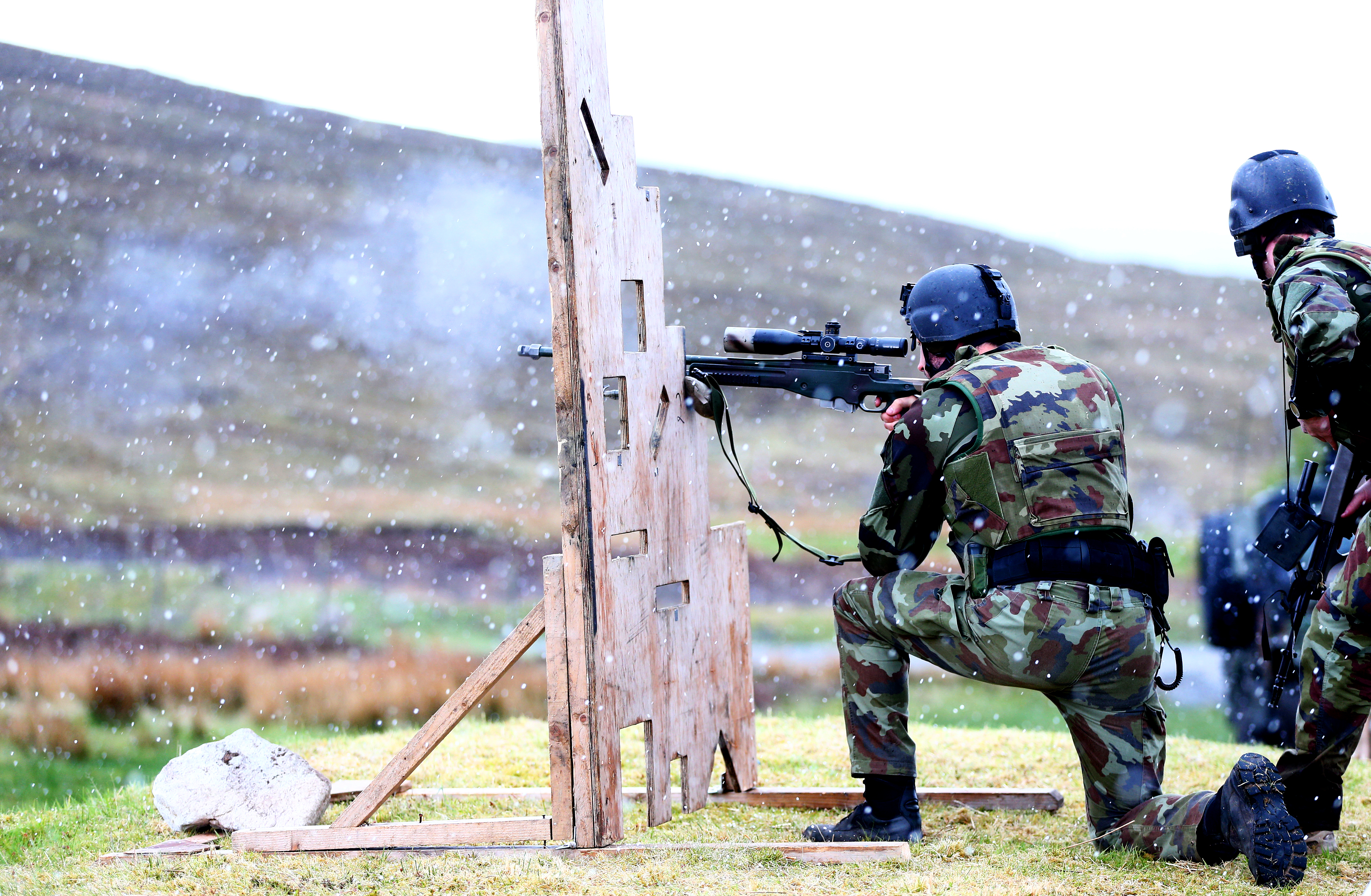 Irish Army Ranger Wing (ARW) sniper course in the Glen of Imaal.